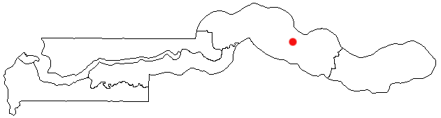 Janjanbureh, The Gambia Location Map